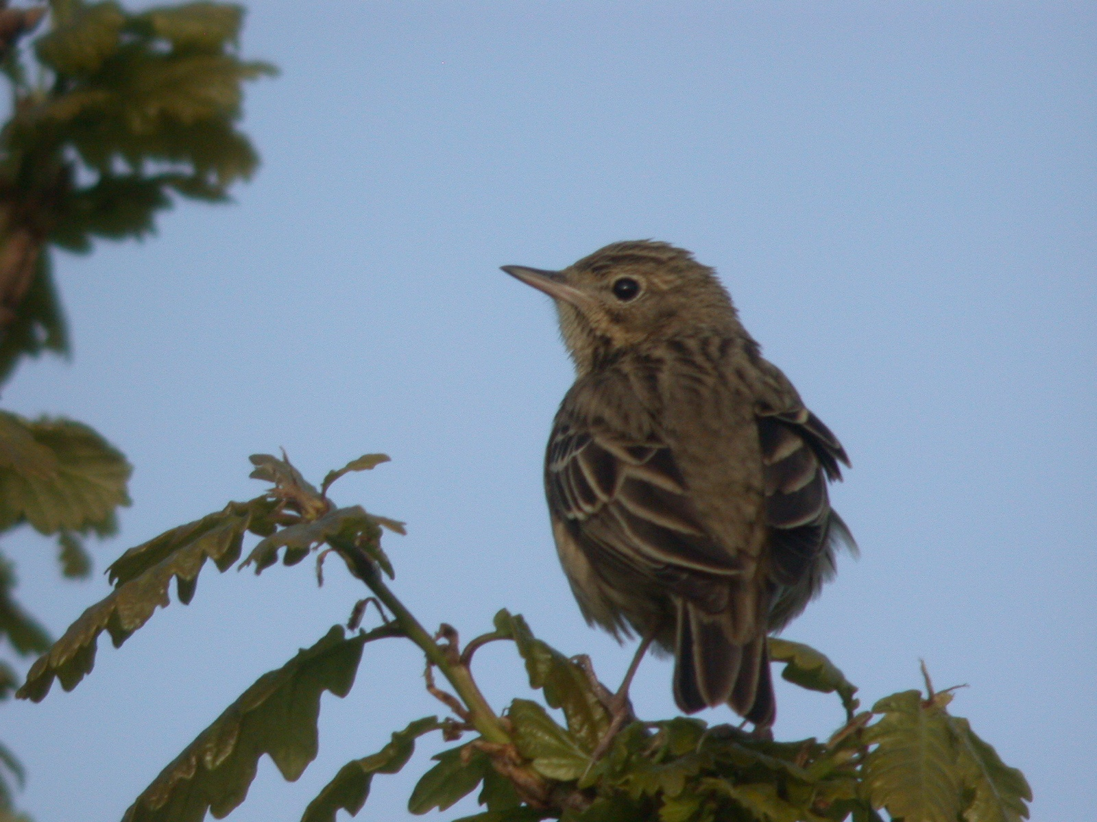 On Cowell Flat NW of Sheffield